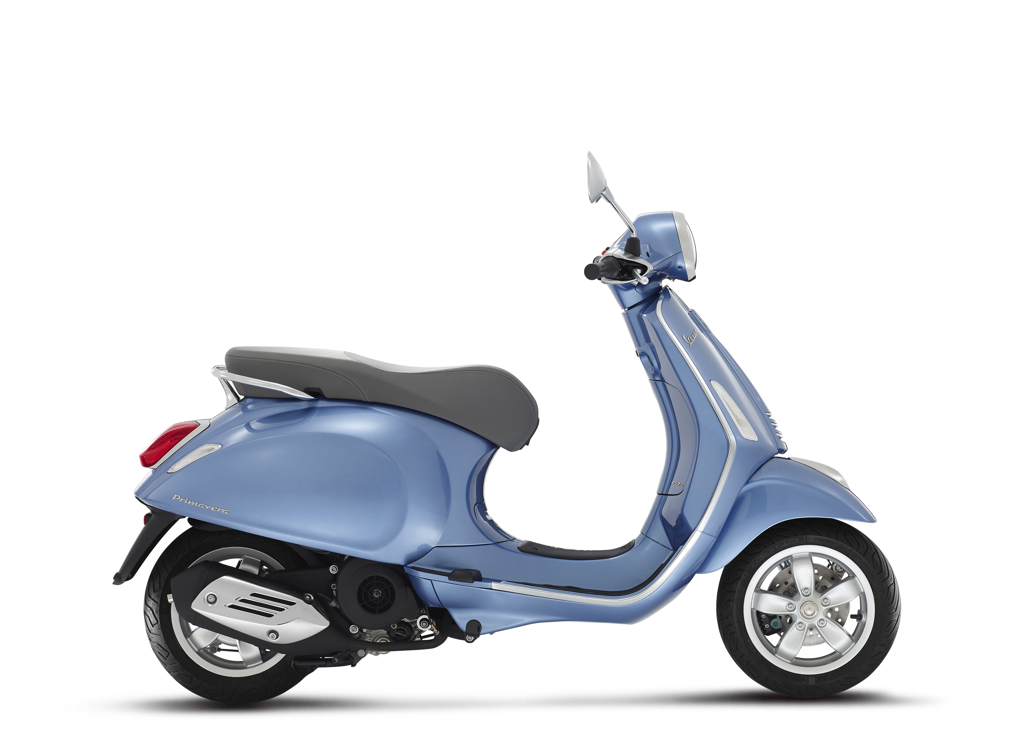 Vespa Primavera